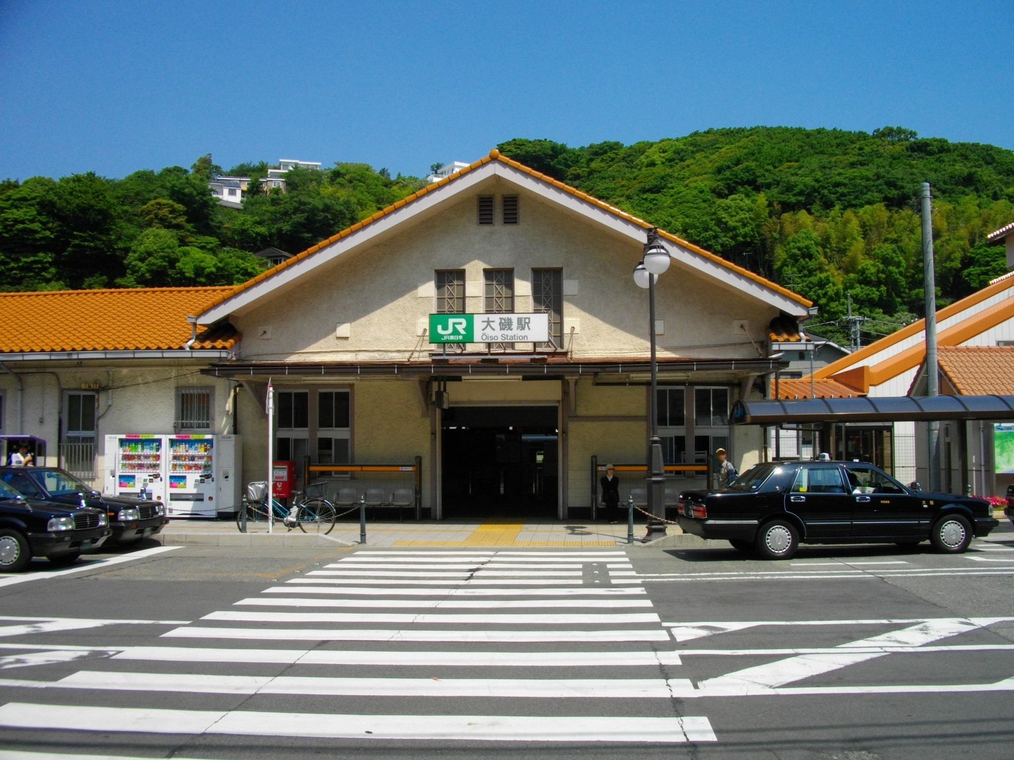 Oiso Station